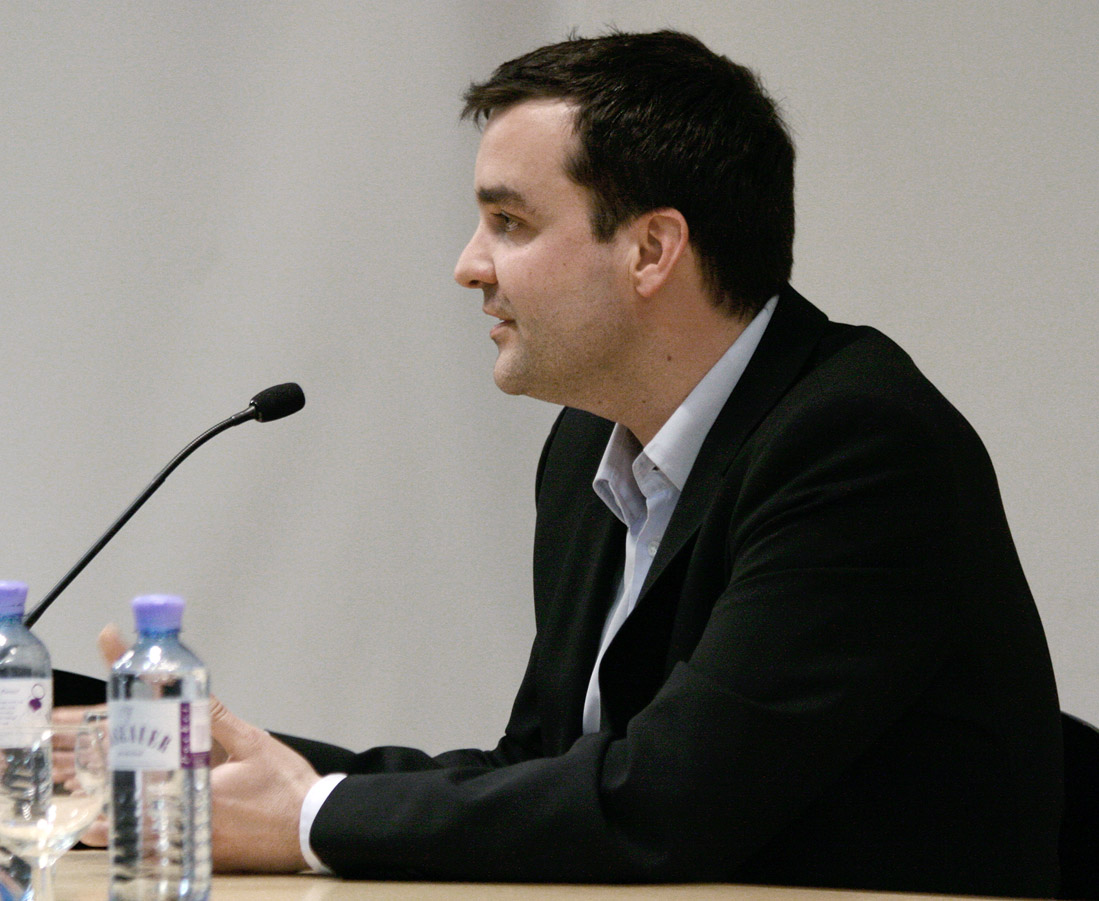 Florian Klenk at the presentation of his book „Früher war hier das Ende der Welt“ – Reportagen (Vienna).